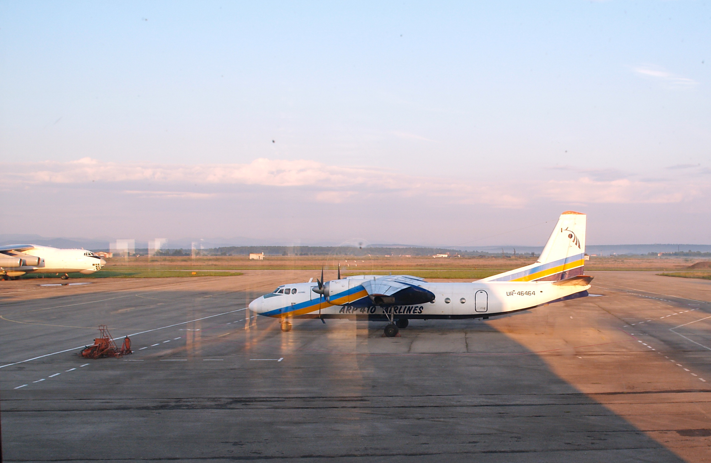 Ivano-Frankivsk flight to Kiev ARP 410 Airlines.